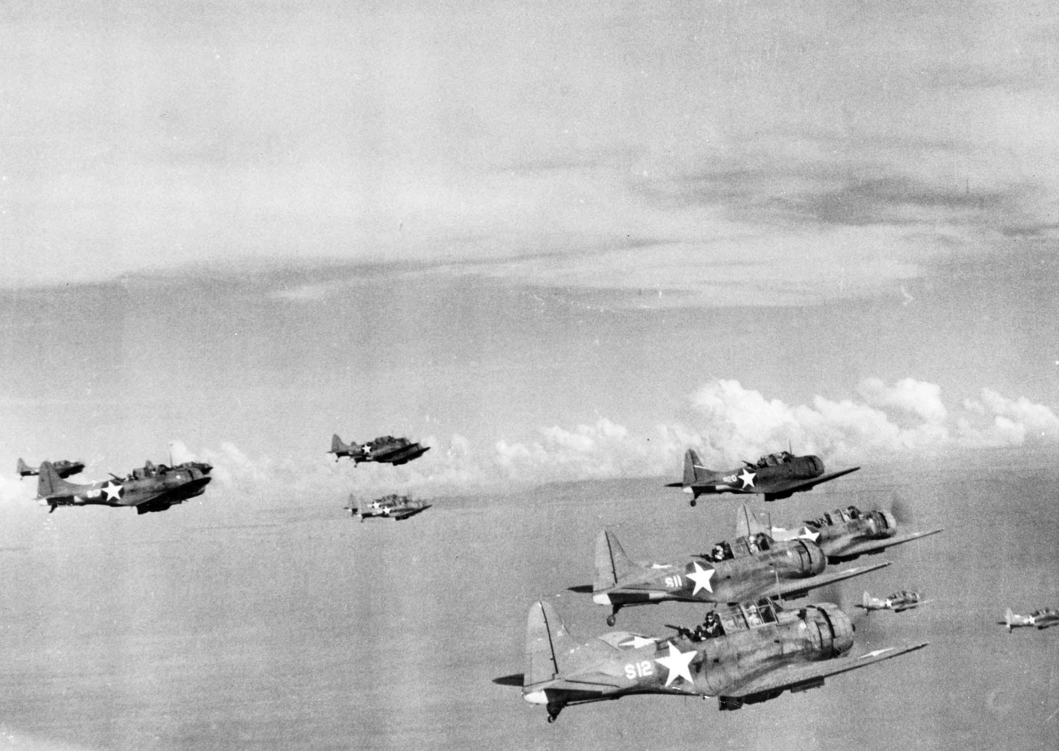 U.S. Navy Douglas SBD-3 Dauntless dive bombers of scouting squadron VS-6 en route to attack the Japanese seaplane base at Rekata Bay, Santa Isabel Island, August-September 1942. VS-6 operated from the aircraft carrier USS Enterprise (CV-6) in the Solomons until she had to return to Pearl Harbor, Hawaii (USA), after the Battle of the Eastern Solomons on 24-25 August 1942. VS-6 (and VB-6 crews) under CO Turner Cladwell then operated for another month from Henderson Field, Guadalcanal, known as "Flight 300" (from the Enterprise flight schedule on 24 August).